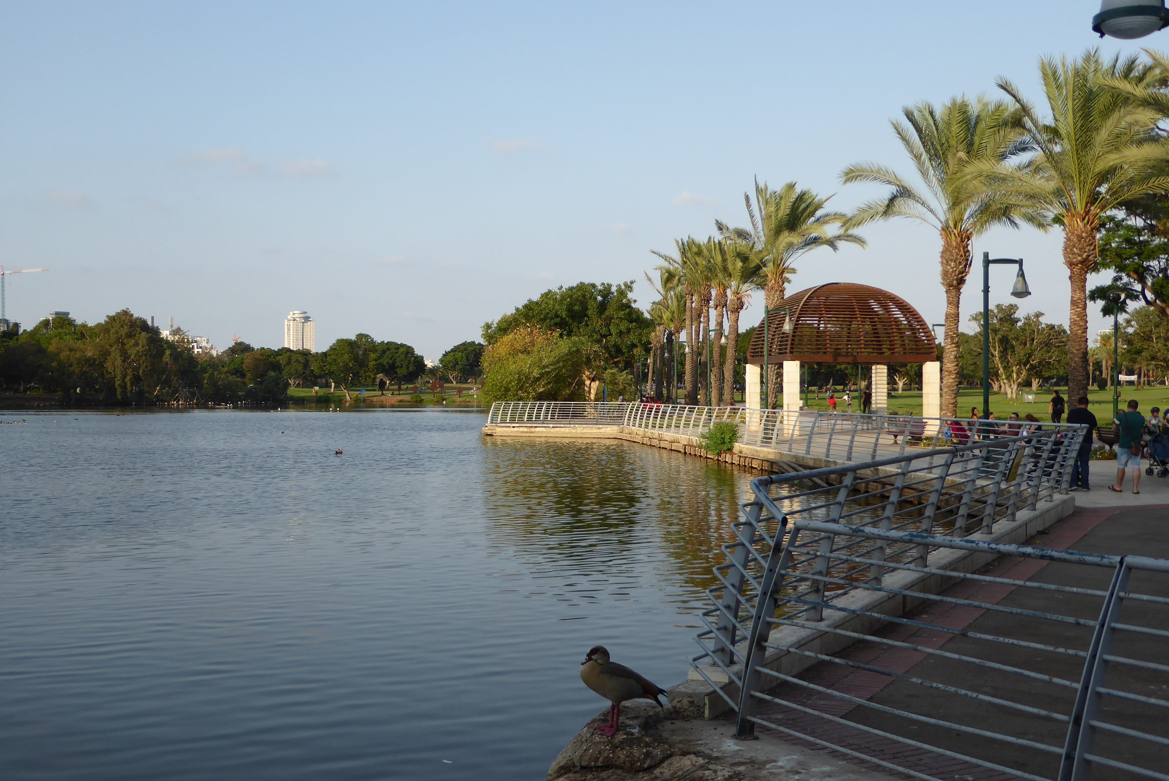 Birds of Ramat Gan, National Park, Ramat Gan